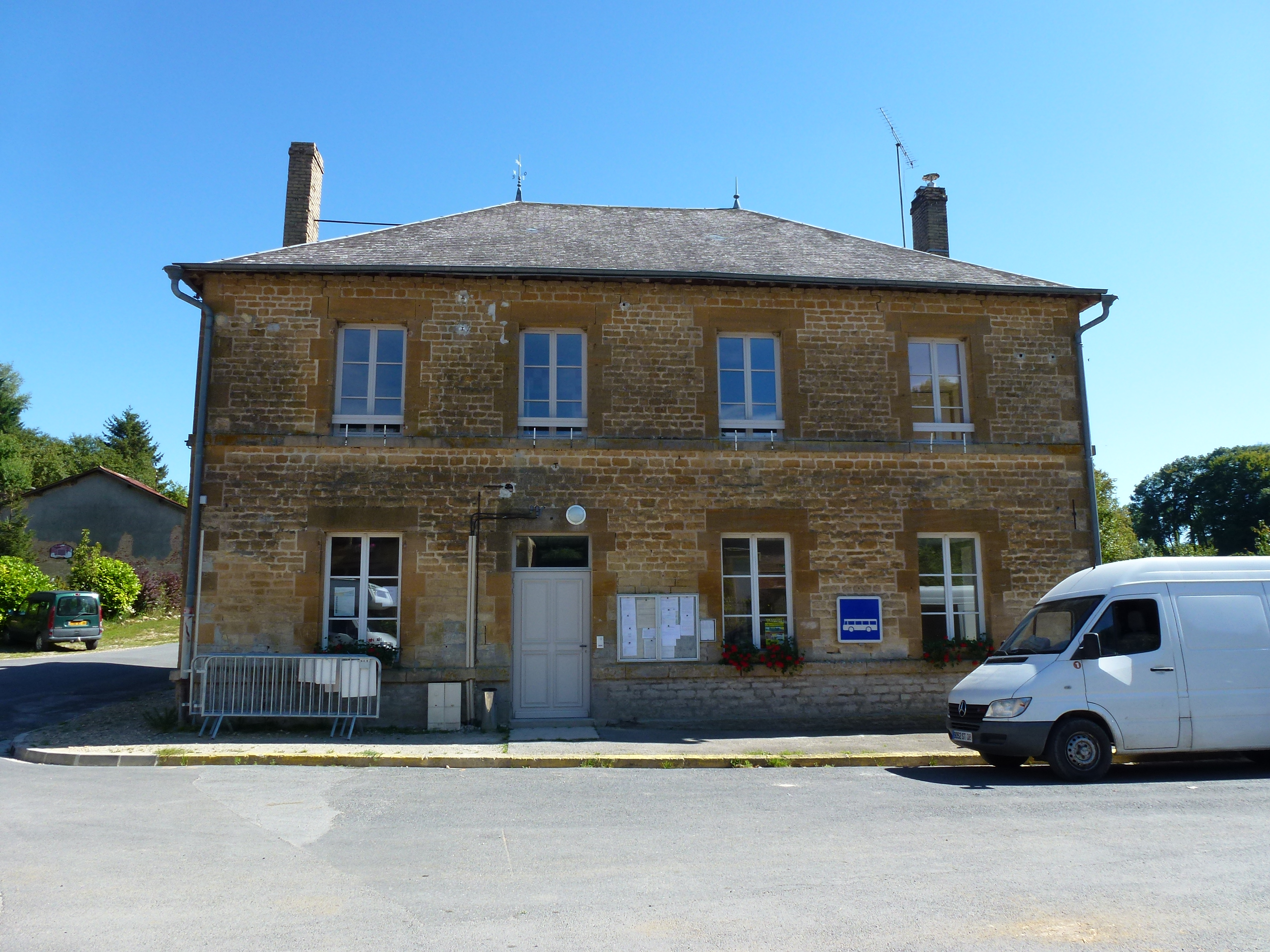 Saint-Loup-Terrier (Ardennes) mairie